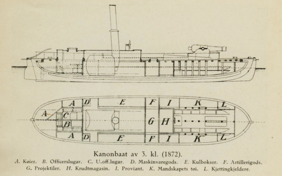 Drawing of a Norwegian gunboat, 3rd class. These boats were converted from image:Kanonchalup.gif.